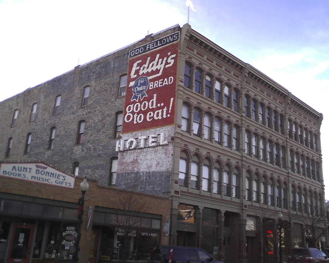 Ghost sign for Eddy's Bread, after restoration and artificial "aging." Iron Front Hotel, 415 N. Last Chance Gulch, Helena, Montana